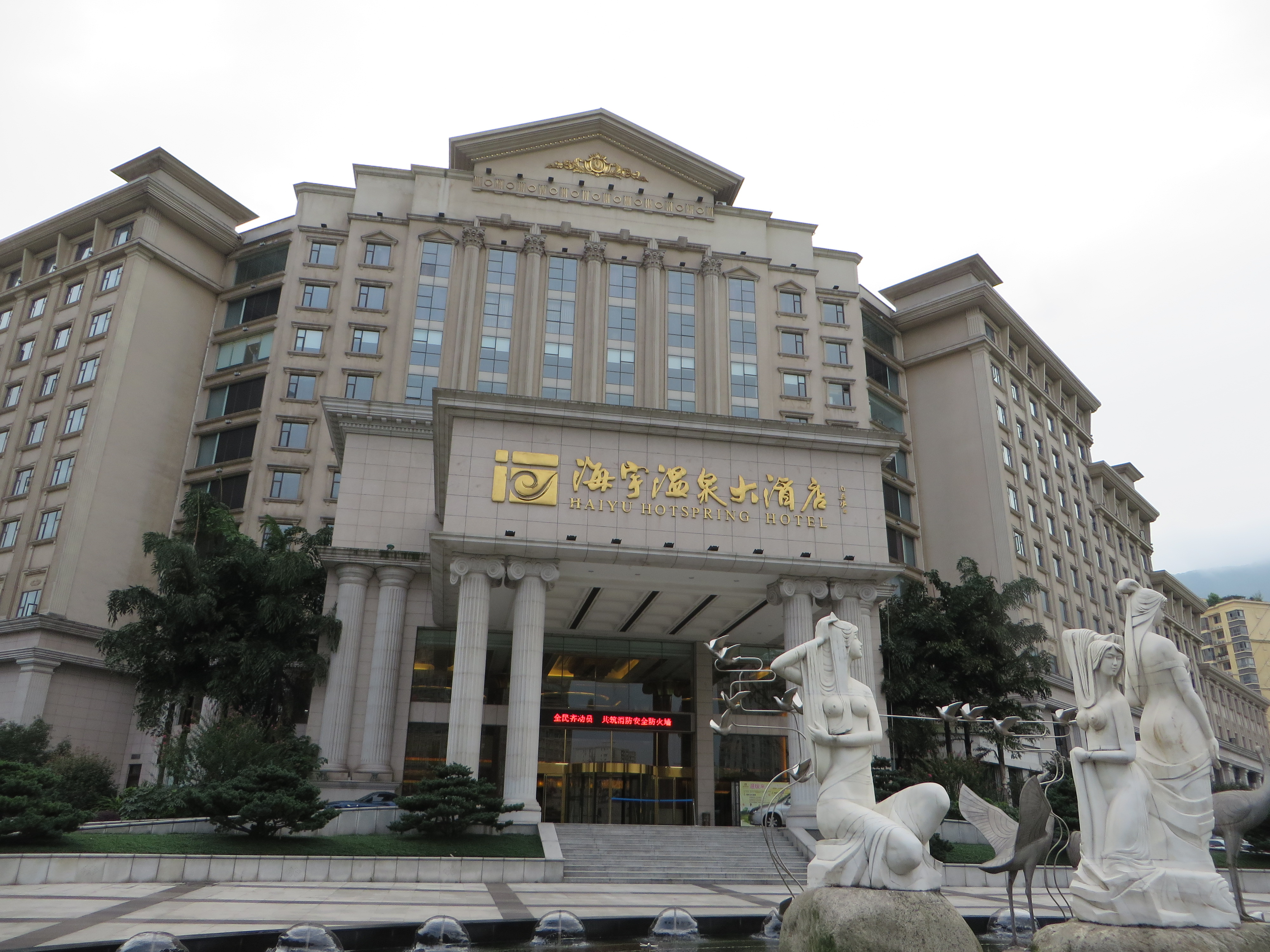 Main entrance of the Haiyu Hotspring Hotel, Beibei, Chongqing, China.